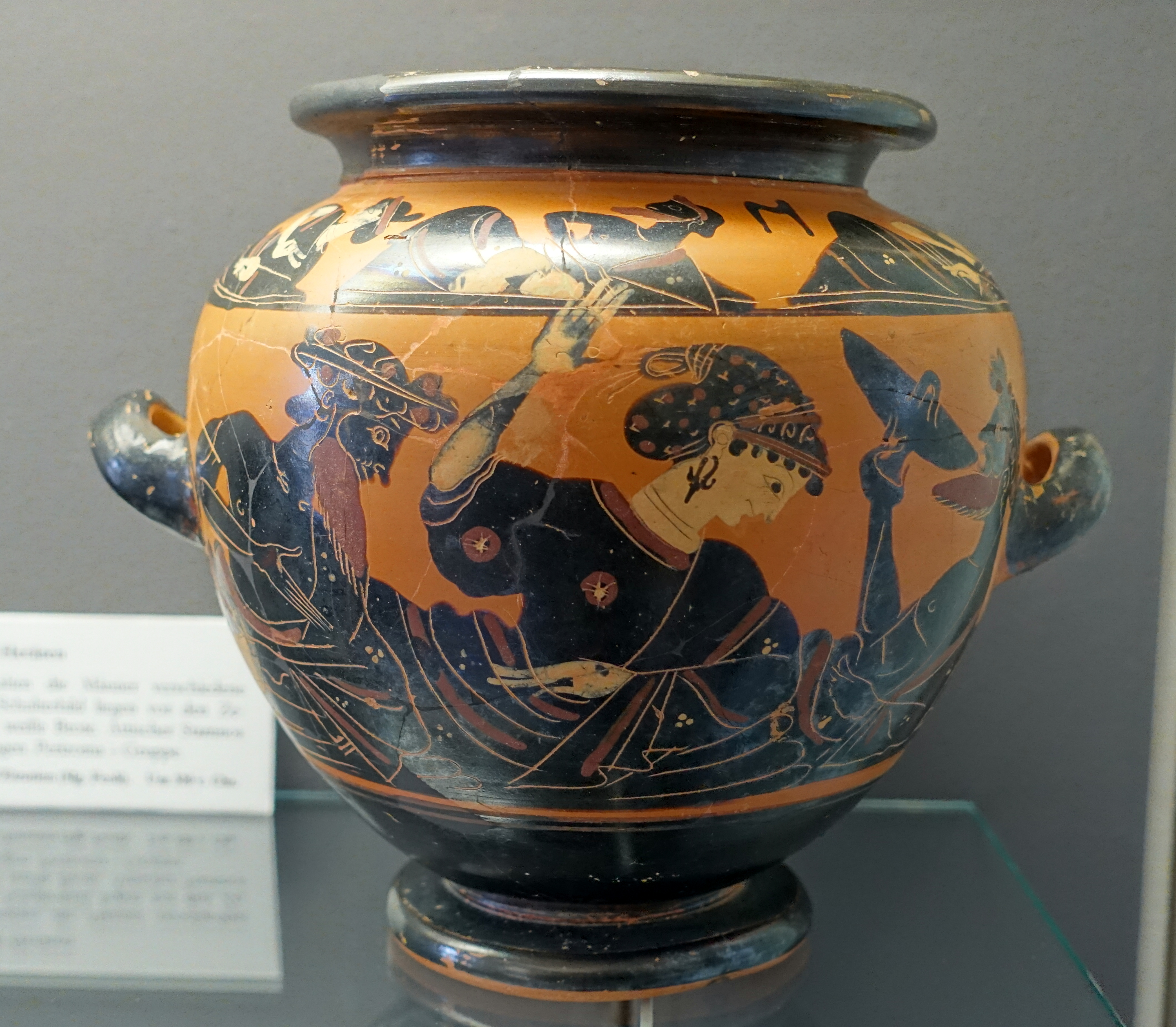 Exhibit in the Martin von Wagner Museum - Würzburg, Germany.